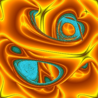 Two‑dimensional repetitive Lyapunov‑fractal pattern